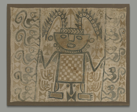 Chancay or Chimu painted textile, C.E. 800-1200. 116.84x139.7 cm. Cotton with paint.